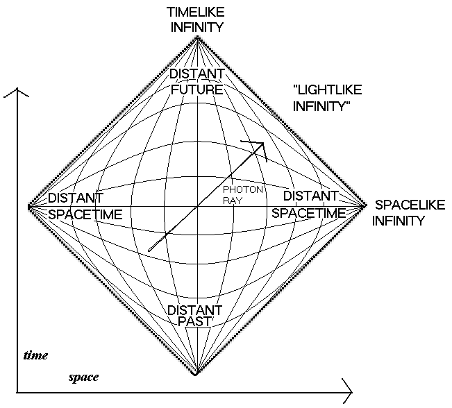 Penrose diagram of the universe.